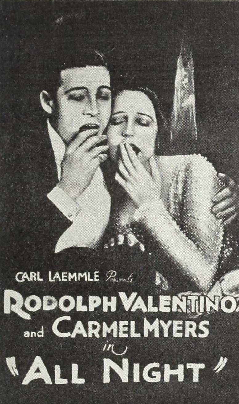 Advertisement for a poster of All Night featuring Rudolph Valentino and Carmel Myers.